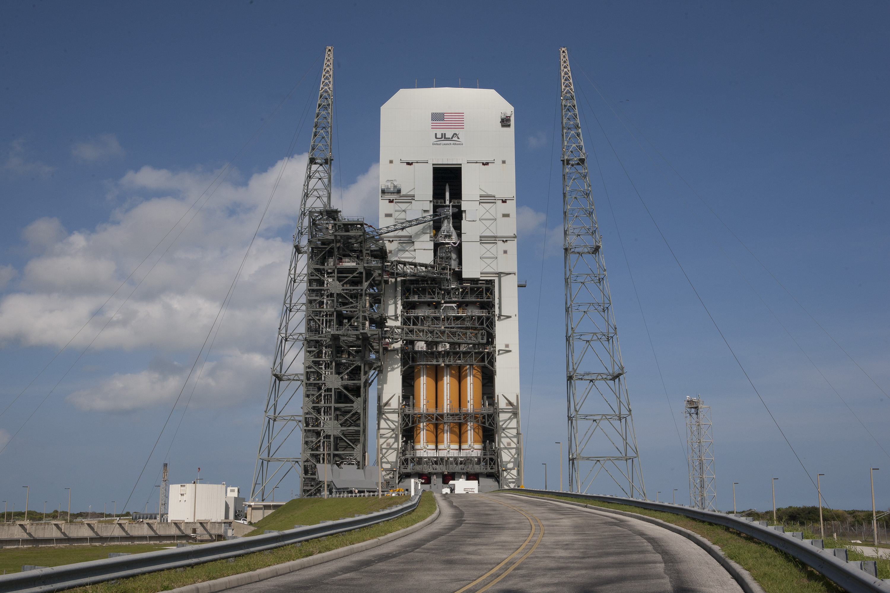 With access doors at Space Launch Complex 37 opened, the Orion and Delta IV Heavy stack is visible in its entirety inside the Mobile Service Tower where the vehicle is undergoing launch preparations. Orion will make its first flight test on Dec. 4 with a morning launch atop the United Launch Alliance Delta IV Heavy. The spacecraft will orbit the Earth twice, including one loop that will reach 3,600 miles above Earth. No one will be aboard Orion for this flight test, but the spacecraft is being designed and built to carry astronauts to deep space destinations such as an asteroid.